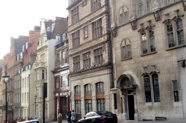 A view of the King's College buildings on the western half of Surrey Street, London.